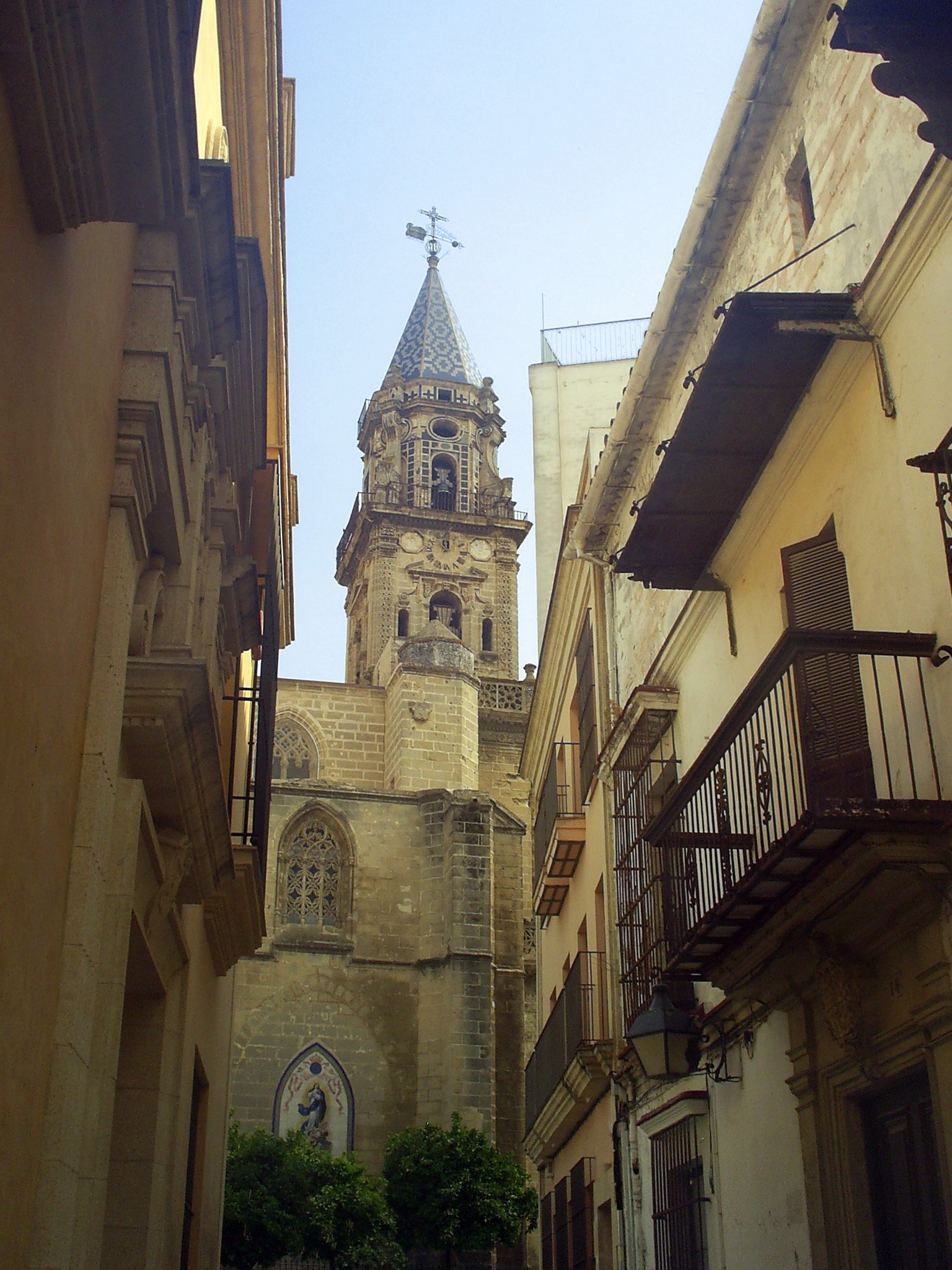 Belfry tower of San Miguel Church, Jerez, Andalusia (Spain).